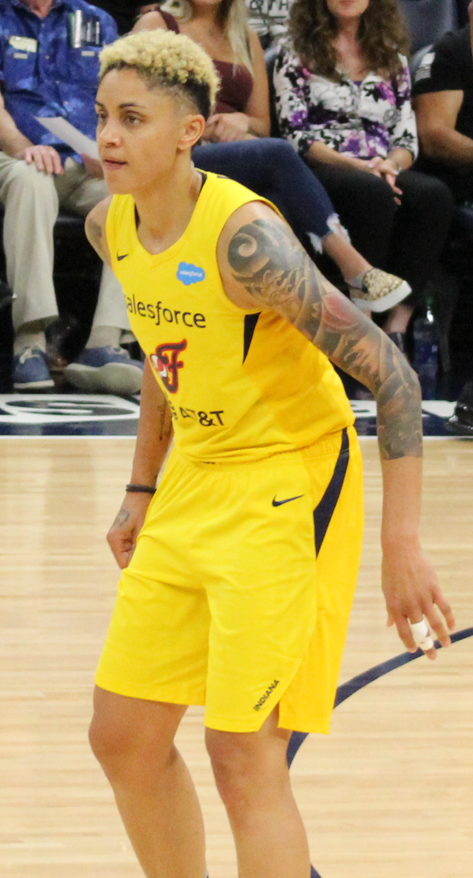 Candice Dupree of the Indiana Fever